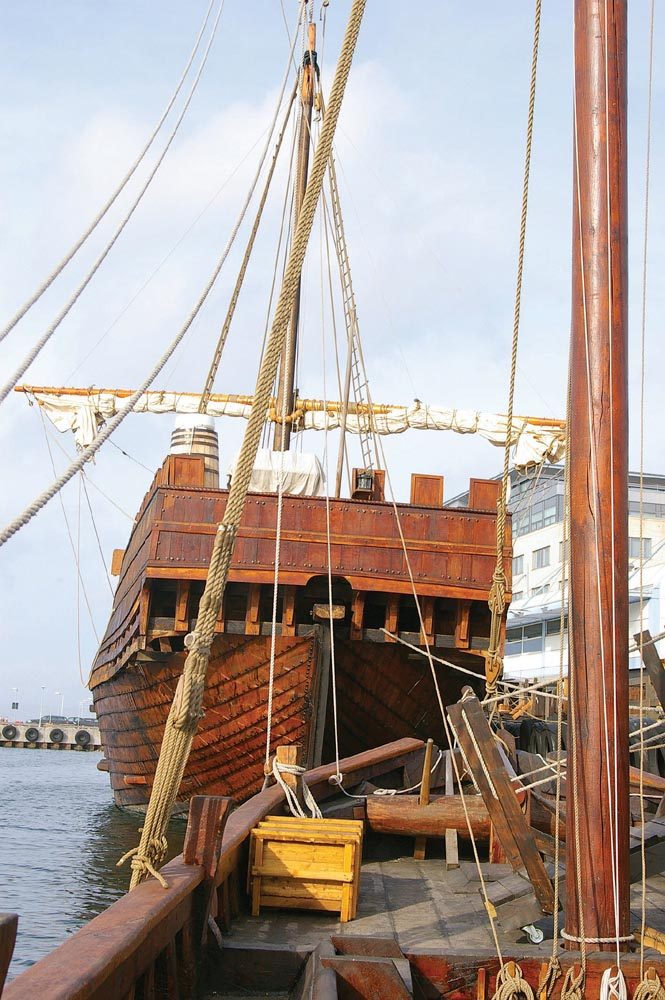 The Museums of Cogs in Malmo harbour, Sweden.